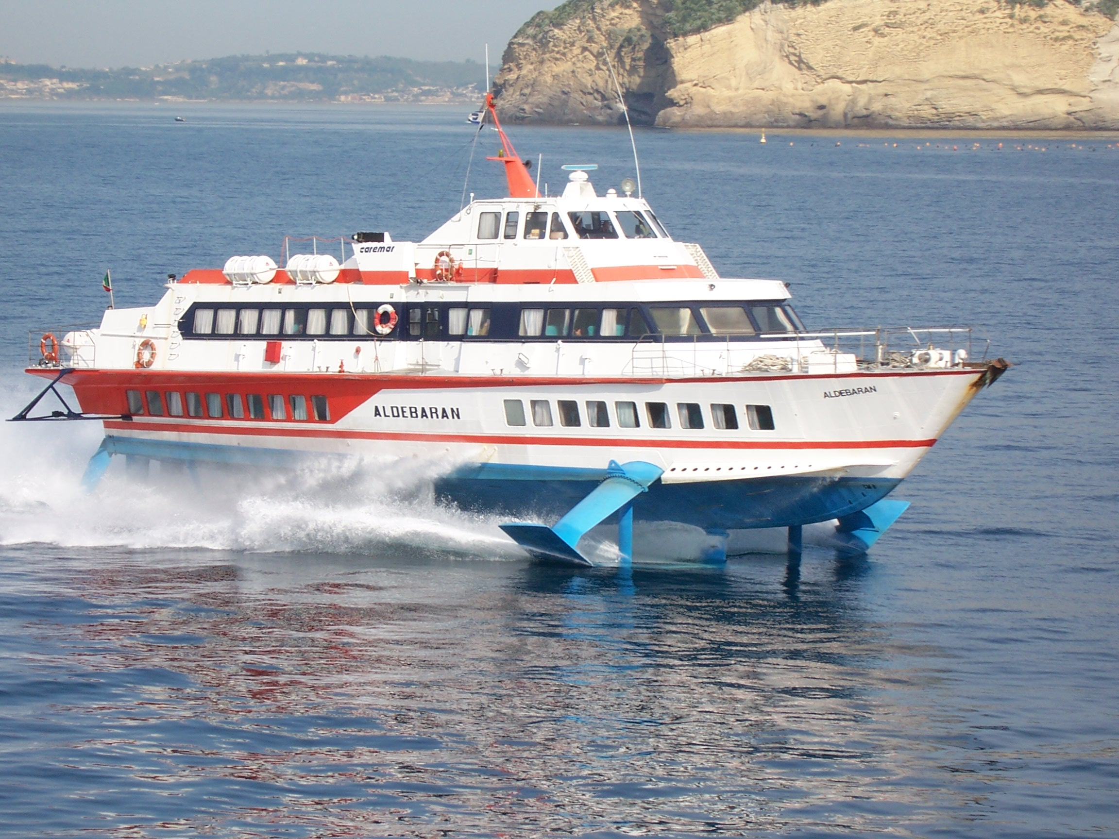 Aldebaran, an hydrofoil owned by Caremar.